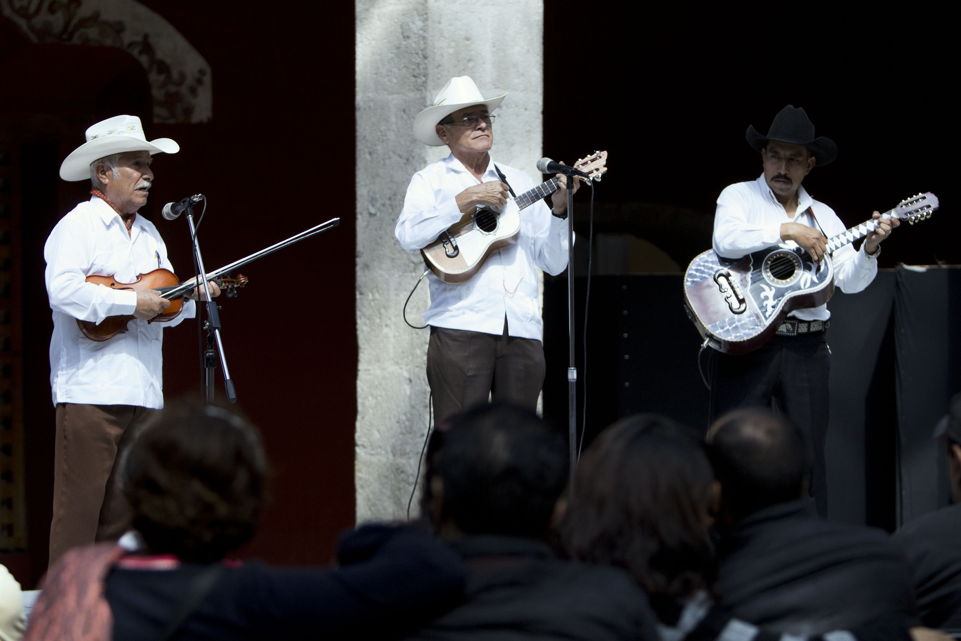 A traditional ensemble of Son huasteco music performing in Mexico City. Saturday, 5 November, 2016. Picture by Maritza Rios / Secretaria de Cultura de la CDMX.